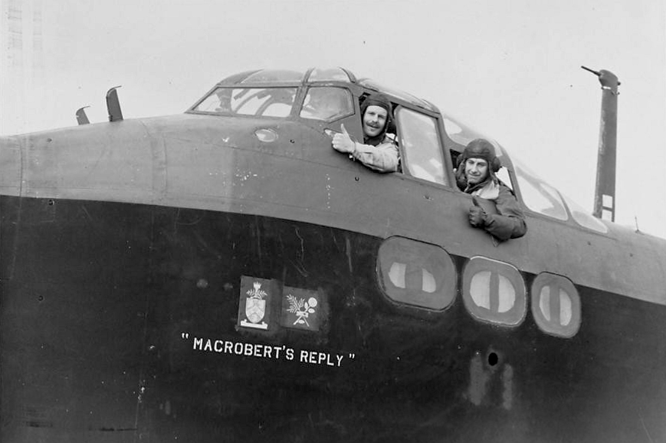 Propaganda poster showing crew members in cokpit on a Short Stirling bomber "MacRobert's Reply" : an aircraft sponsored by Lady Rachel Workman MacRobert in memory of her three sons killed in RAF service.